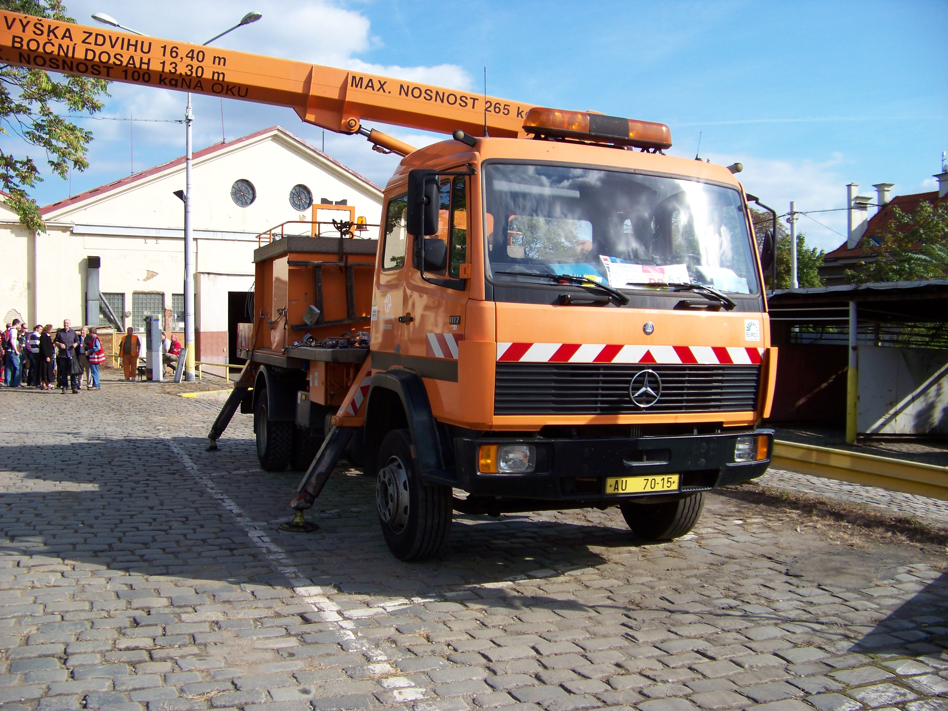 Prague-Vinohrady, the Czech Republic. Former tram depot, aerial work platform truck.